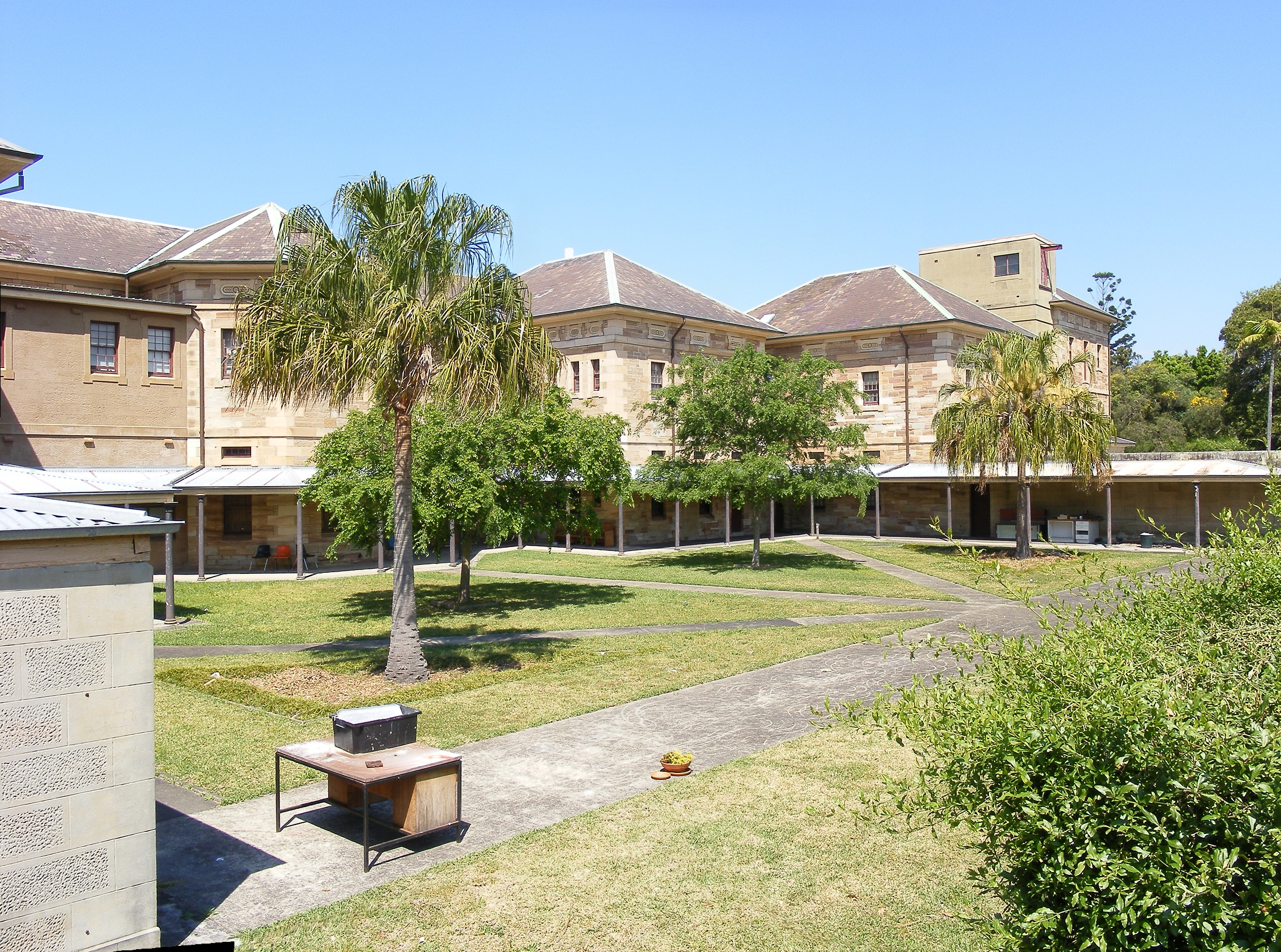 Rozelle Mental hostpital